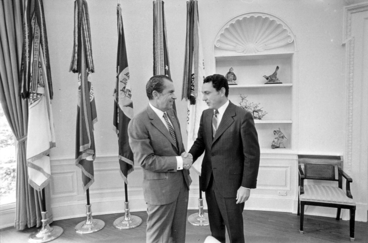 ● Frame(s): WHPO-6469-02-04, President Nixon standing in the Oval Office with Arlen Specter District Attorney of Philadelphia. 6/4/1971, Washington, D.C., White House, Oval Office. President Nixon, Arlen Specter ● Frame(s): WHPO-6469-05-11, President Nixon with Arlen Specter District Attorney of Philadelphia and John Mitchell. 6/4/1971, Washington, D.C., White House, Oval Office. President Nixon, Arlen Specter, John Mitchell